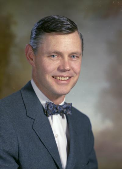 Representative Alan Thompson, 1967